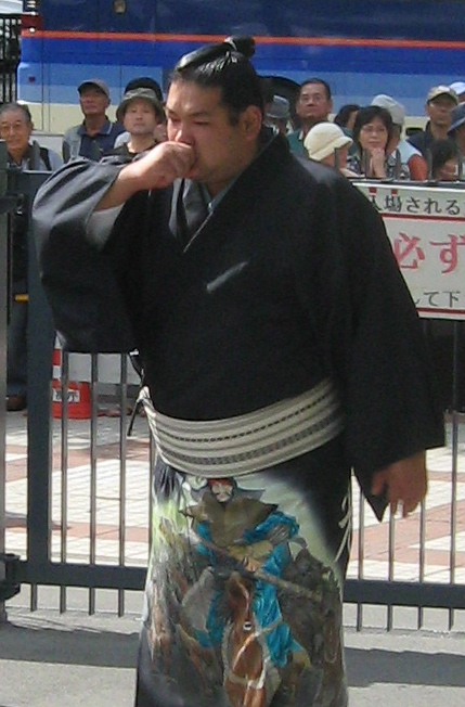 taken at 2008 Sep tournament